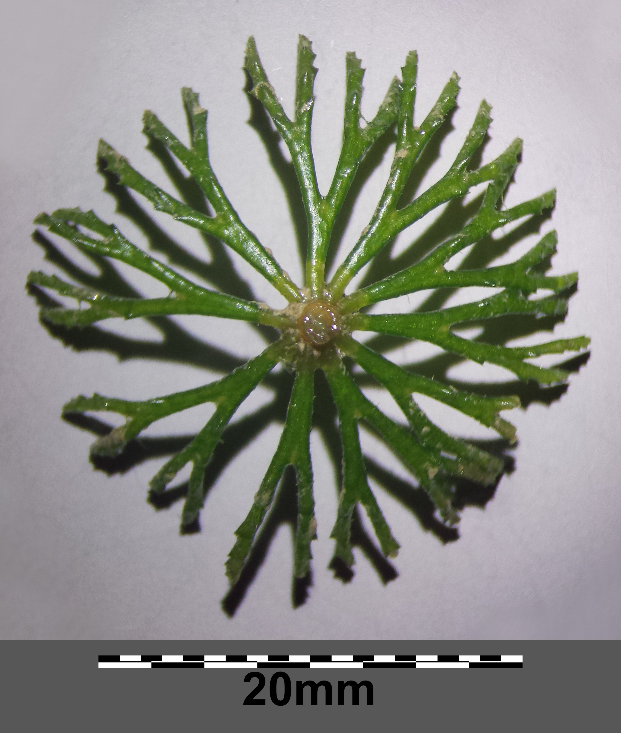 Whorl Taxonym: Ceratophyllum demersum ss Fischer et al. EfÖLS 2008 ISBN 978-3-85474-187-9 Location: Marchfeldkanal near Groß-Jedlersdorf, Wien-Floridsdorf - ca. 160 m a.s.l. Habitat: canal